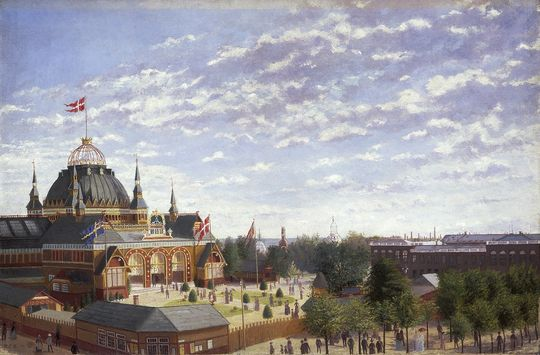 Painting from the Nordic Exhibition of 1888 in Copenhagen, Denmark, showing the main exhibition building at the site of the old haymarket where the City Hall Square lies today.